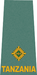 Second Lieutenant (Tanzania Army OF-01B)